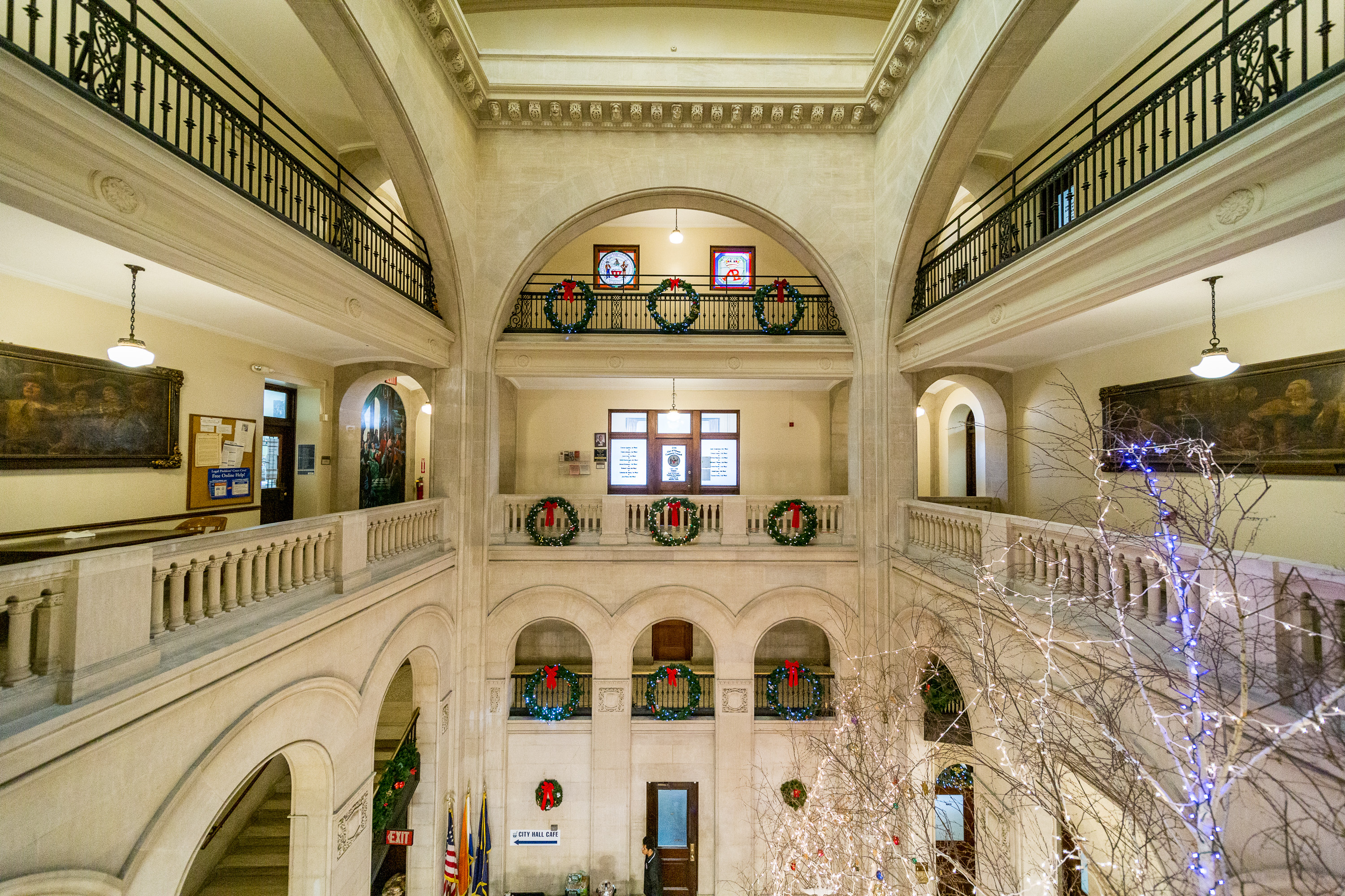 Albany City Hall interior, decorated for the Christmas holidays.